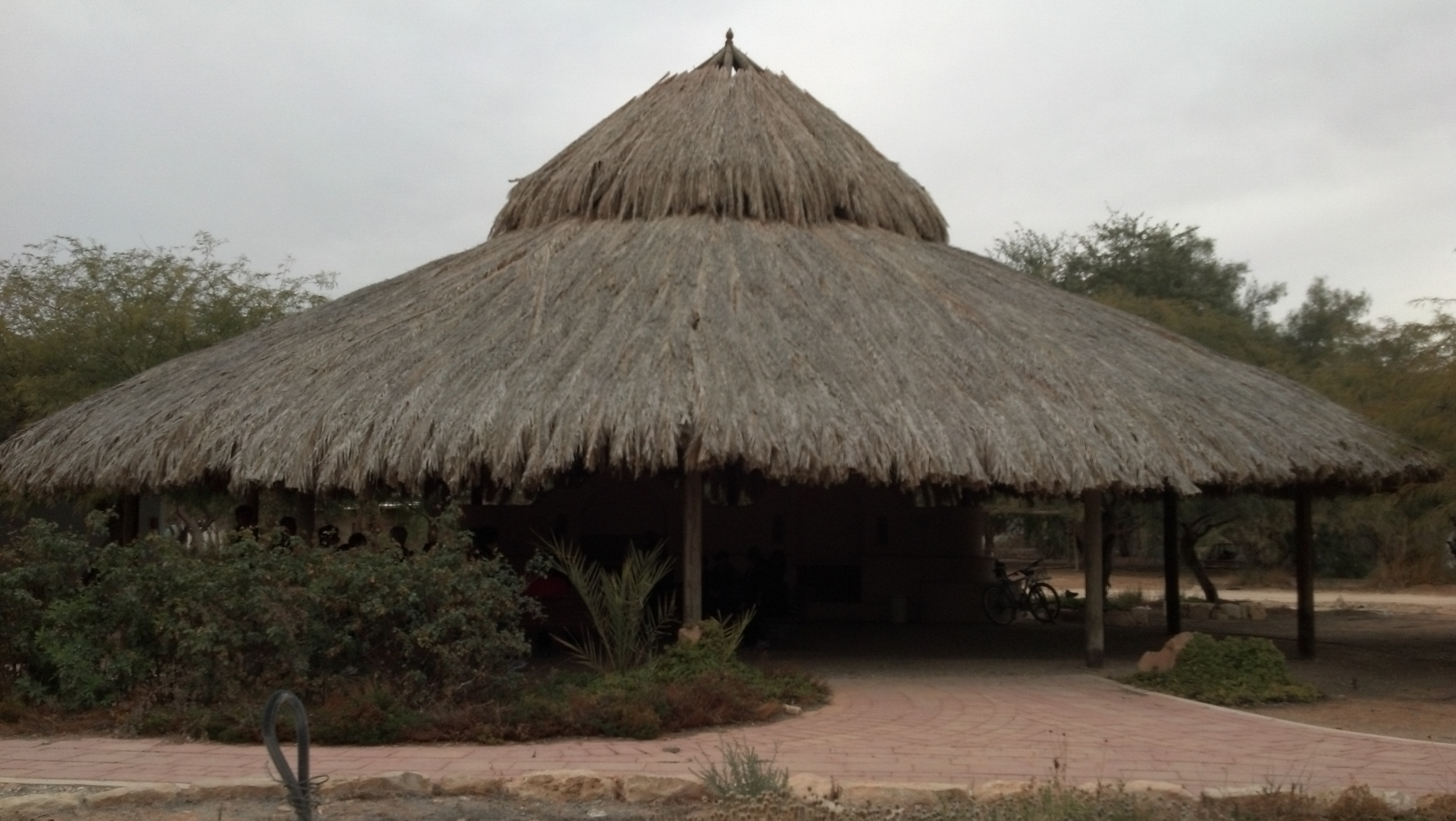 Shack made of date branches at Neot Semadar, Israel